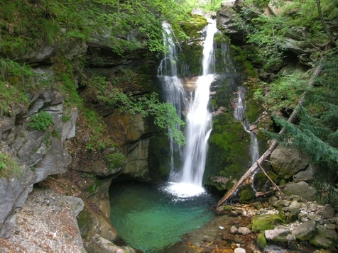 Waterfall at the spring of Babuna River